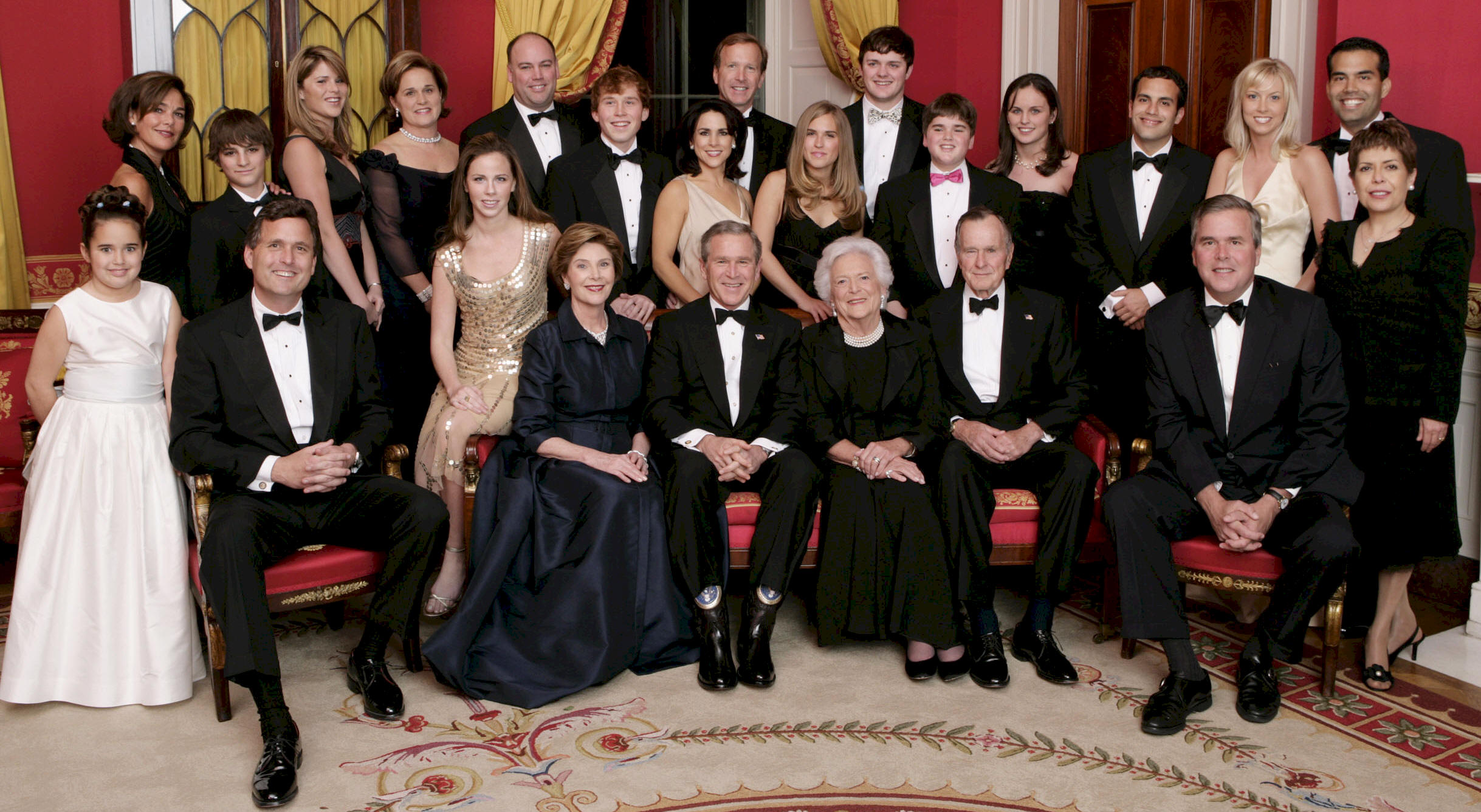 President George W. Bush, Laura Bush, former First Lady Barbara Bush, and former President George H.W. Bush sit surrounded by family in the Red Room, Thursday, Jan. 6, 2005. Friends and family joined former President Bush and Mrs. Bush in celebrating their 60th wedding anniversary during a dinner held at the White House. Also pictured are, from left, Georgia Grace Koch, Margaret Bush, Walker Bush, Marvin Bush, Jenna Bush, Doro Koch, Barbara Bush, Robert P. Koch, Pierce M. Bush, Maria Bush, Neil Bush, Ashley Bush, Sam LeBlond, Robert Koch, Nancy Ellis LeBlond, John Ellis Bush, Jr., Florida Gov. John Ellis "Jeb" Bush, Mandi Bush, George P. Bush, and Columba Bush.